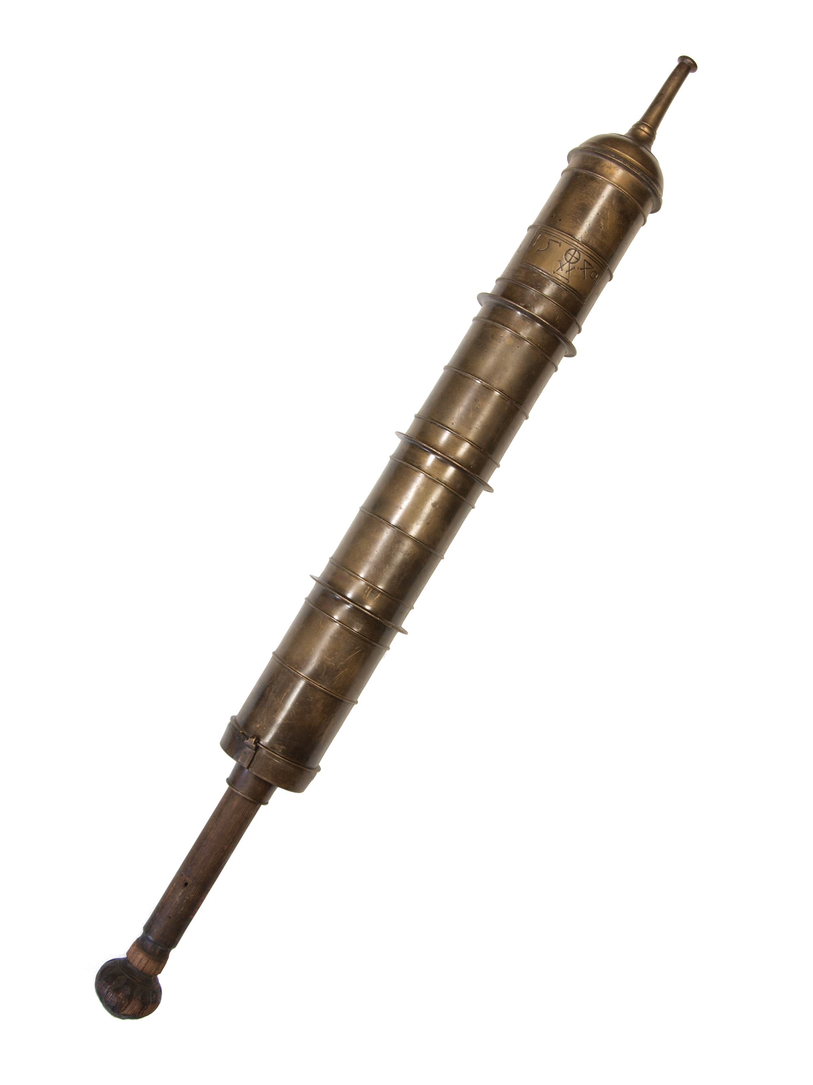 Fire extinguishing syringe from 1540 halfly expelled. Bronze and wood. Inventory No. 1929,4. Diameter: 137 mm (5.4 in).